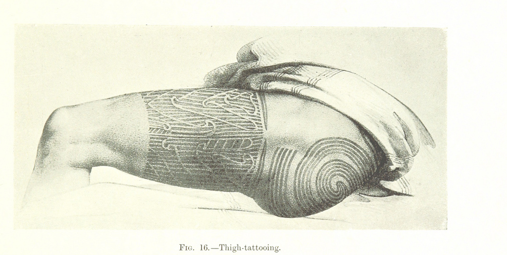 Image depicting a Māori tattoo or moko on someone’s thigh and buttock